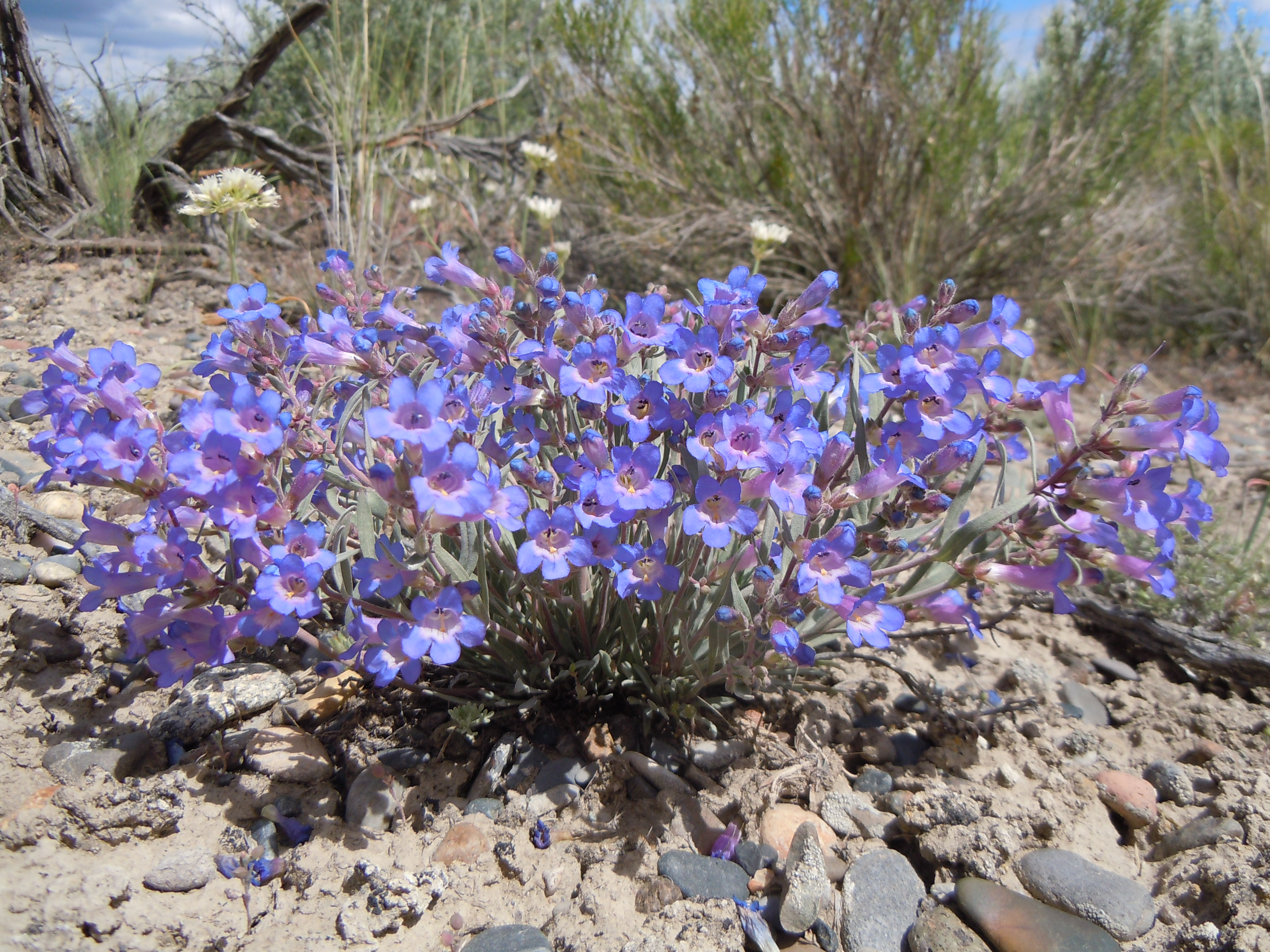 This one of a kind specimen of Penstemon pumilus was so profusely flowering that it was not possible to not photograph it. Some of the clay flats in the southern INL area of 2011 harbored such flowering individuals. This is possibly the most geographically restricted species known to occupy INL lands.